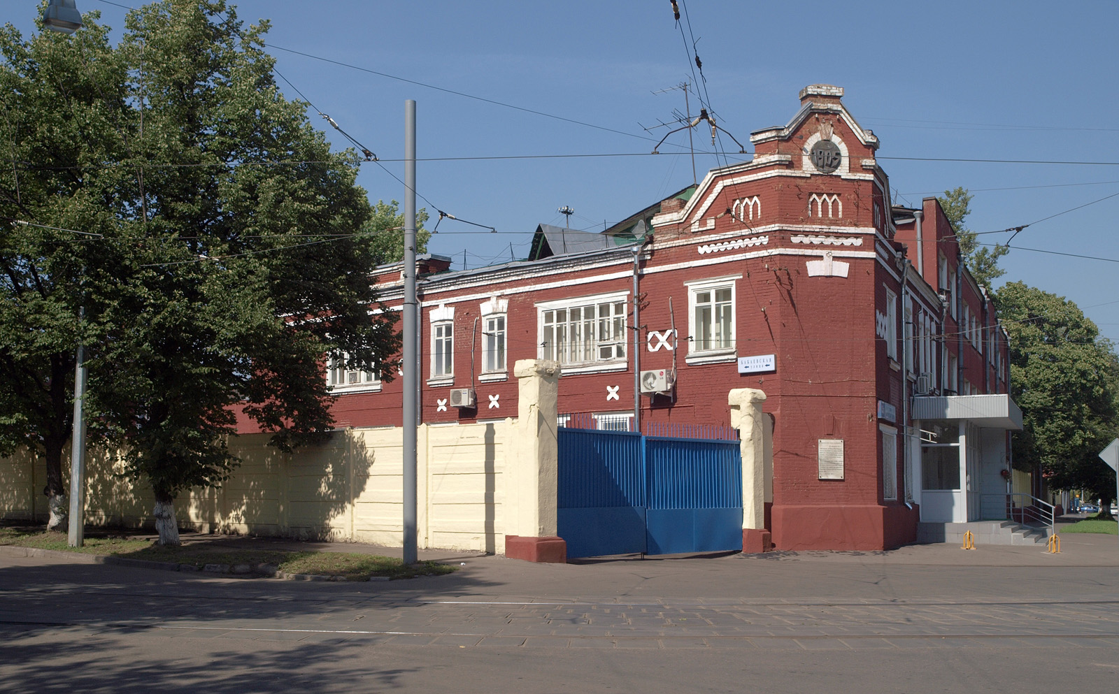 SVARZ rolling stock repair plant, Sokolniki, Moscow — corner of Babayevskaya and Matrosskaya Tishina Streets.